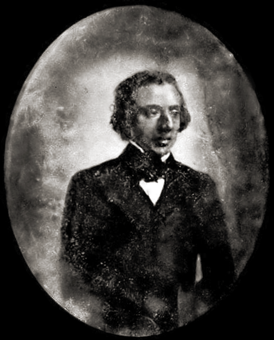 Brought back feature/shadow through digital dodge and burn to approximate assumed original of digitally available copy; removed scratches and distortion